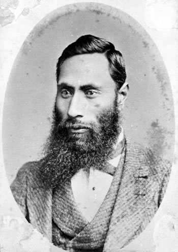 Hori Taiaroa was first elected to Parliament in the Southern Maori electorate in 1871. He was an MP for most of the time until 1885, when he was called to the Legislative Council. He held that latter position until his death in 1905.